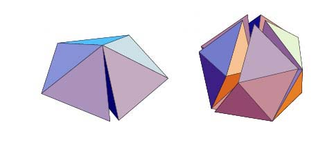 Twenty tetrahedra with a common vertex built an imperfect icosahedron